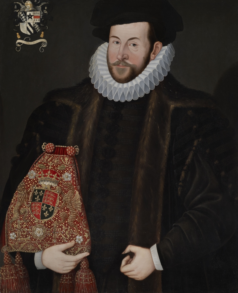 Portrait of Sir John Puckering (died 1596), holding the Lord Keeper's Purse embroidered with the royal arms of Queen Elizabeth I. His arms above left display quarterly of six: 1&6: Sable, five fusils in bend cotised argent or Sable, a bend lozengy cotised argent (Puckering); 2: Argent, a mullet sable pierced of the field (Ashton, for his mother), possible other quarters are: Lever[1]